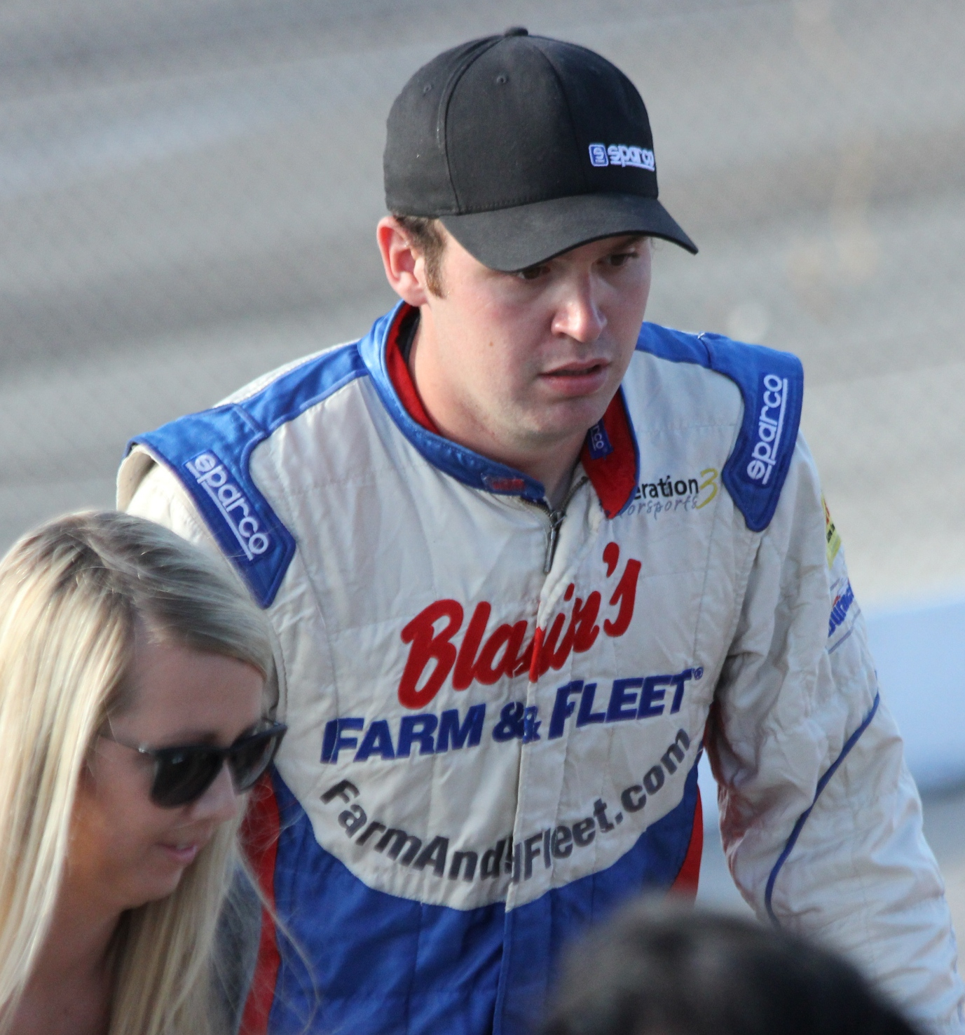 NASCAR driver Ross Kenseth climbing stairs to give out autographs at Wisconsin International Raceway - Dixieland 250 ARCA Midwest Tour.